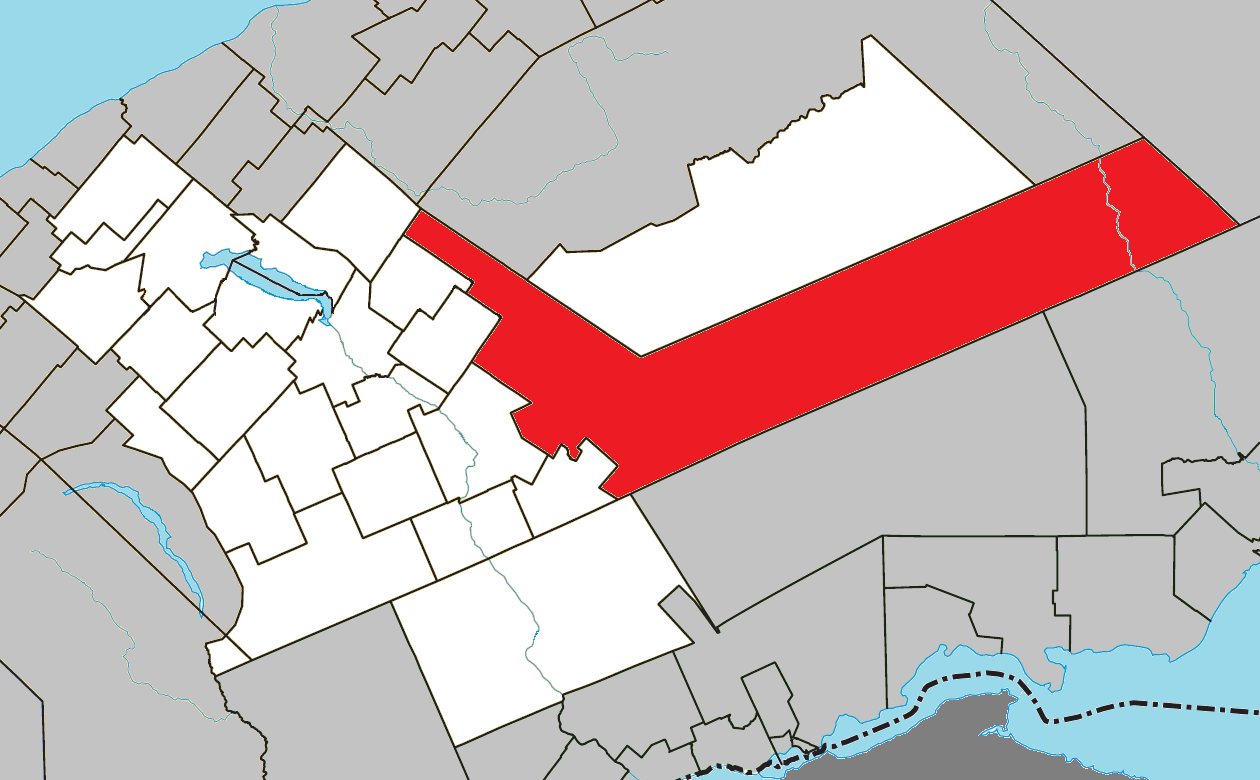 Location of Lac-Casault, Quebec within La Matapédia Regional County Municipality.